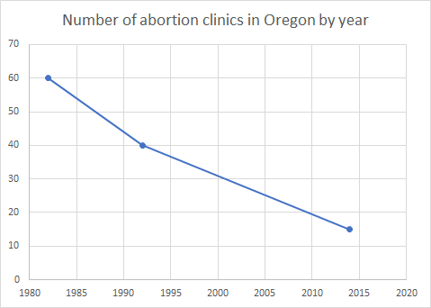 Number of abortion clinics in Oregon by year. Data is from articles linked at